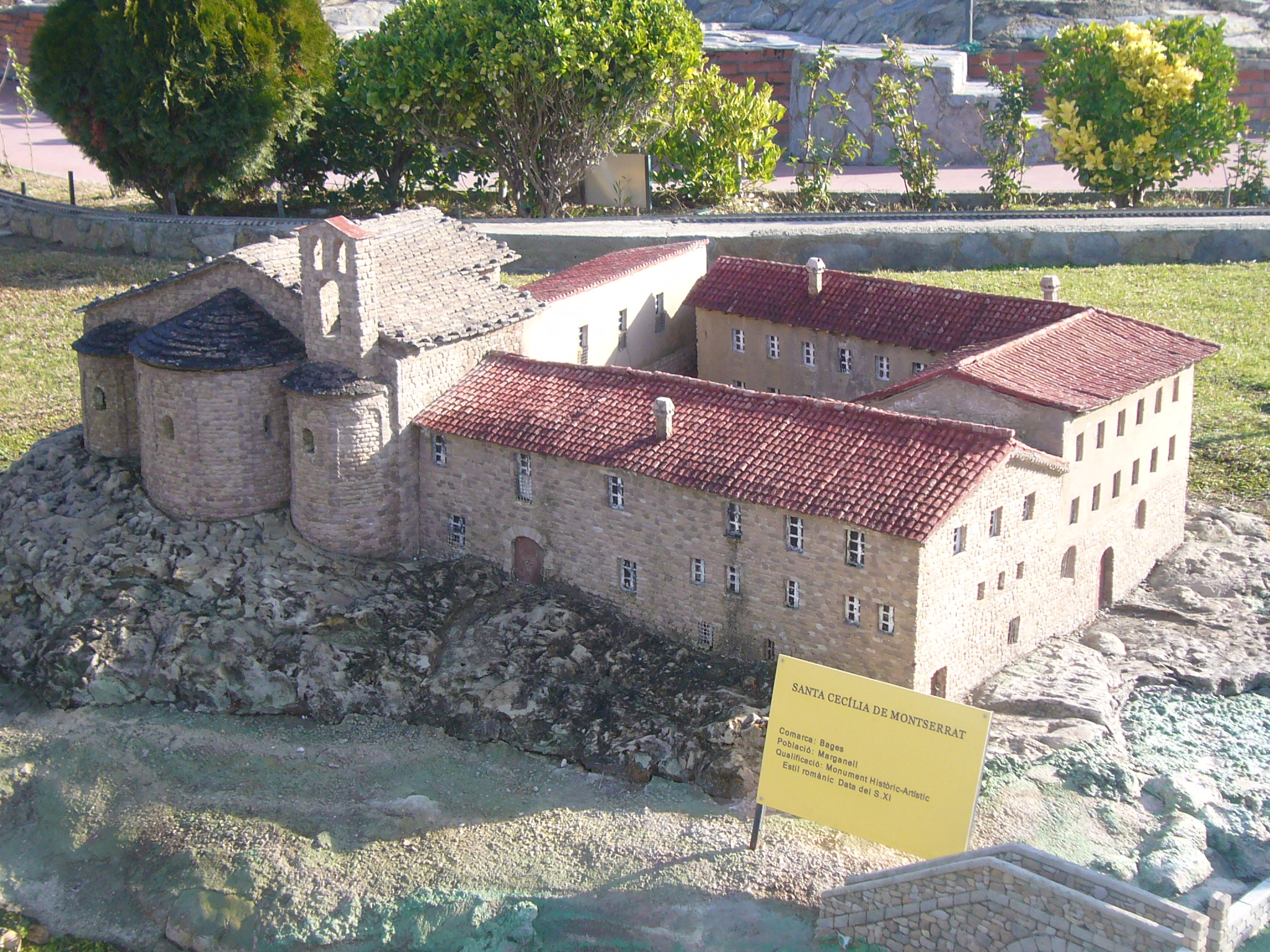 Scale model at the "Catalunya en Miniatura" miniature park : Church and Monastery of Santa Cecília de Montserrat